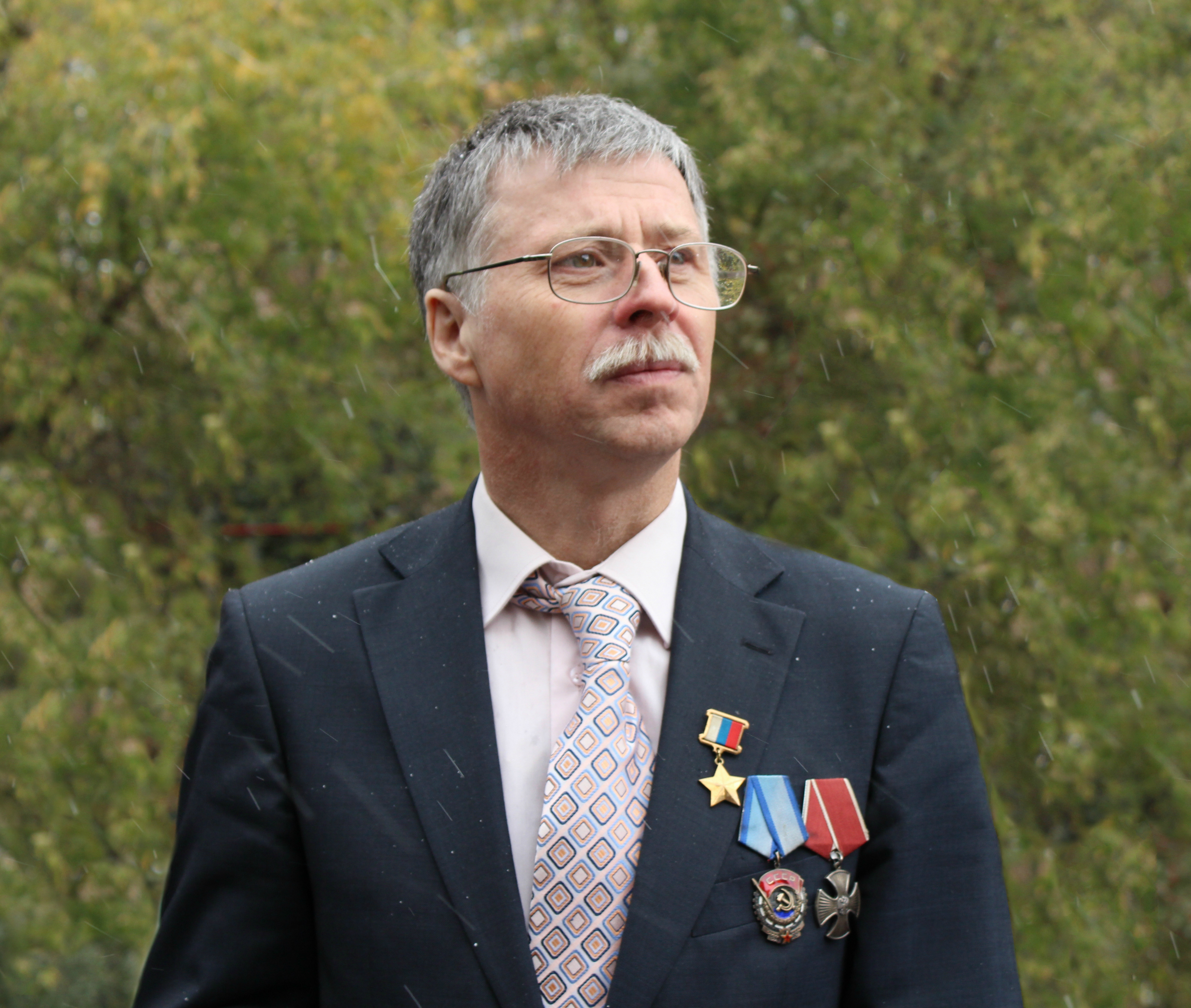 He made over 420 dives, held under water 3890 hours, sank to the bottom of the North pole to search for scientific evidence about the origin of the Arctic ocean at a depth of 4261 meters. He found the submarine "Komsomolets". Yevgeny Chernyaev is a Russian engineer and commander of the deep-sea submersible «Mir-2» , one of the most experienced diver of world.